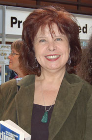 Left to right: American fantasy writer Delia Sherman, American science fiction writer Nancy Kress, and American editor Ellen Datlow.